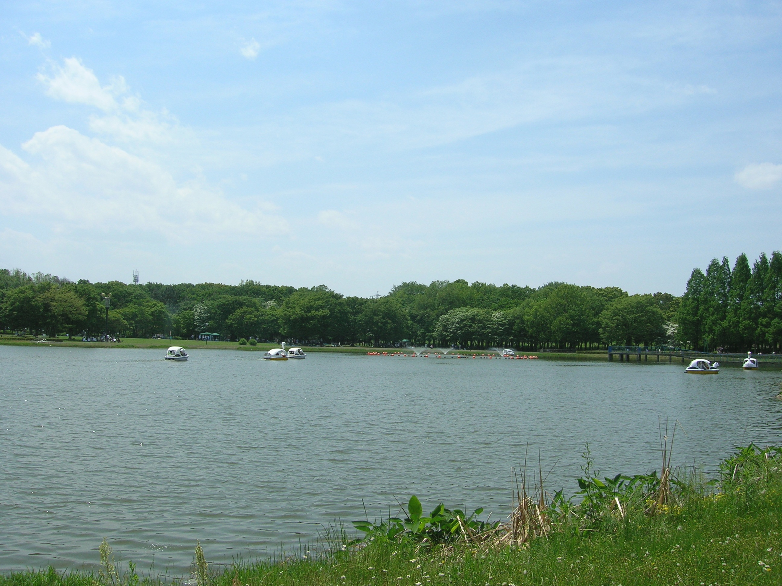 Shonai ryokuchi (Shonai green). Loc: Nagoya city, Aichi Prefecture, Japan. 庄内緑地・ボート池 撮影場所 愛知県名古屋市西区